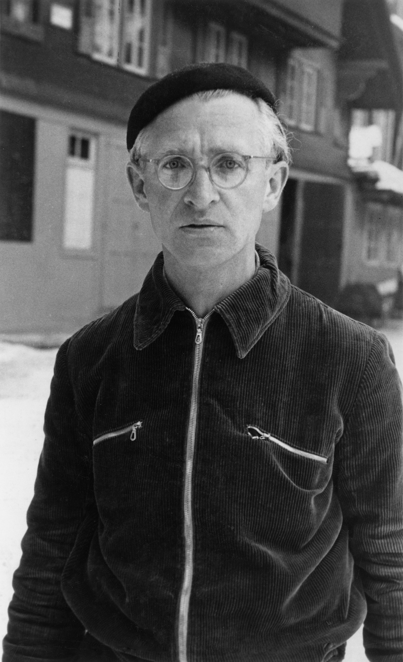 Painter and member of the german resistance Ernst Walsken